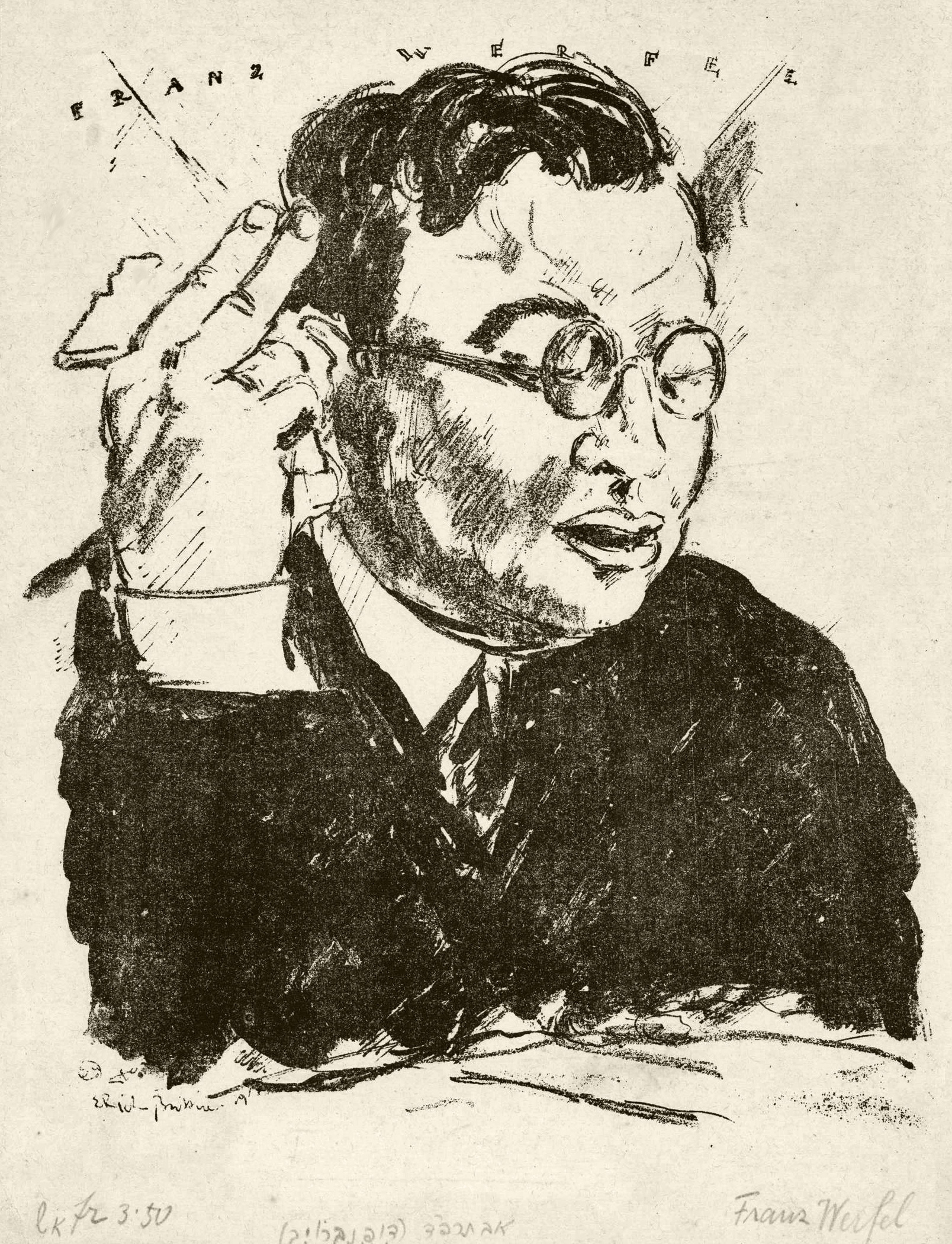 Sketch of Franz Werfel by Erich Büttner